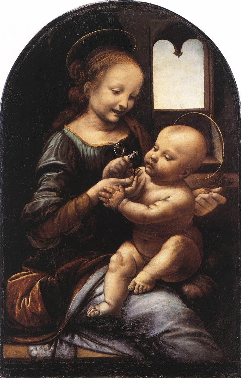 Mary and her child are naturally engrossed in their game, and their gazes make them appear lifelike to a degree that can be found in no contemporary Italian painting of the Madonna. Leonardo achieved this quality by means of nature studies. In 1478, he noted that he was working on two Madonnas. The Benois Madonna can be dated to that period. The painting has in its present condition been overpainted in some places and has lost some of the paint layer.The painting was also called the Madonna Benois because of the family who owned it. This canvas demonstrates the newly developed method of chiaroscuro - a lighting/shading technique that made the figures appear three dimensional. It entered the Hermitage in 1914.